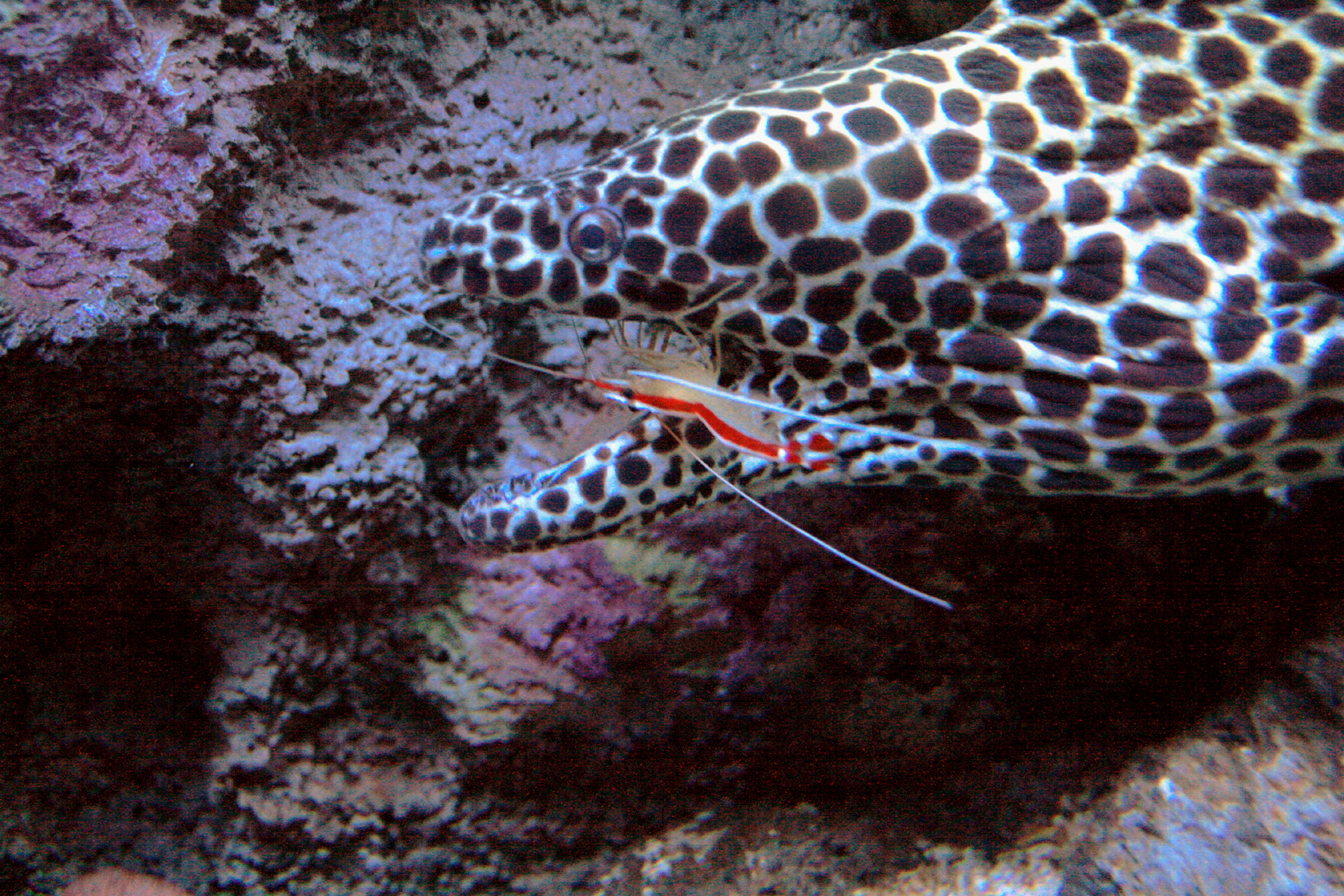 Cleaner shrimp,Lysmata amboinensis cleans mouth of a moray eel (Gymnothorax favagineus).